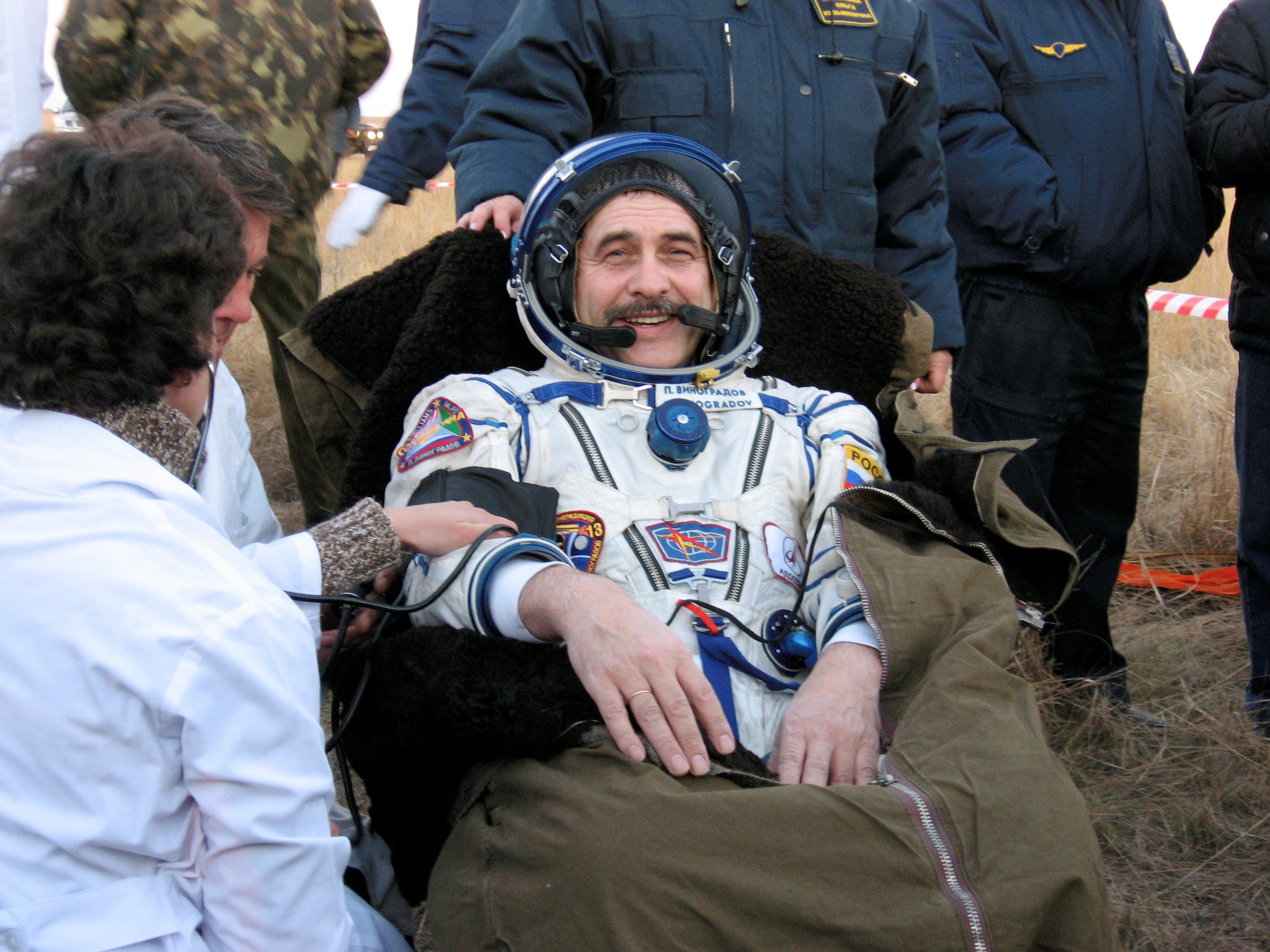 Cosmonaut Pavel V. Vinogradov, Expedition 13 commander, chats with Russian and American search and recovery teams on the steppe of central Kazakhstan on Sept. 29, 2006. This came a short while after the landing in the Soyuz TMA-8 spacecraft following undocking earlier in the day from the International Space Station. Vinogradov and astronaut Jeffrey N. Williams, flight engineer and NASA ISS science officer, spent 183 days in space while Anousheh Ansari, spaceflight participant, spent 11 days in space and 9 days on the ISS under a commercial agreement with the Russian Federal Space Agency.